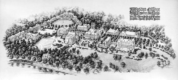 Charles D. Maginnis' "Oxford in America" master plan for Boston College, in 1908.